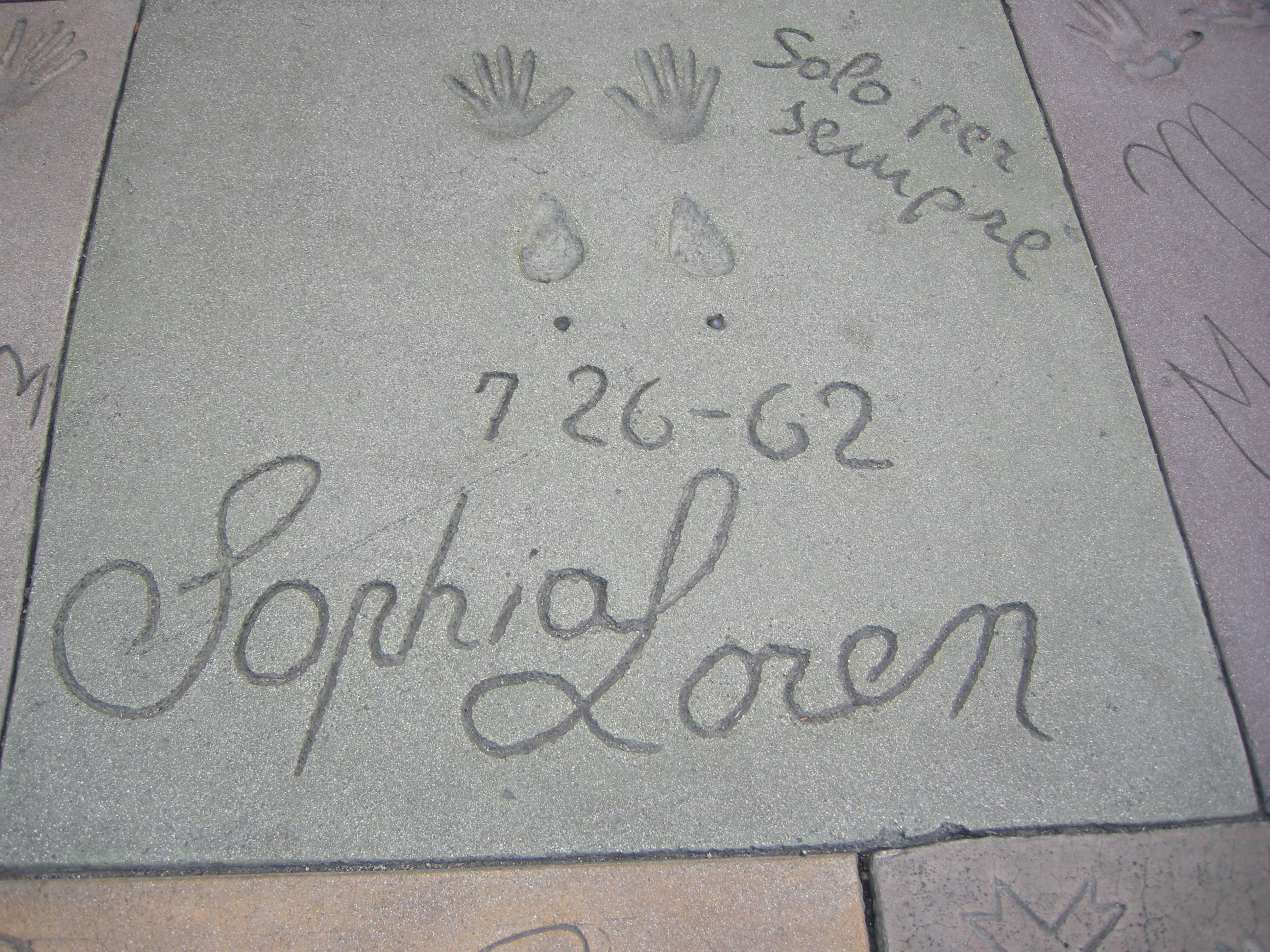 Grauman's Chinese Theatre, sophia loren